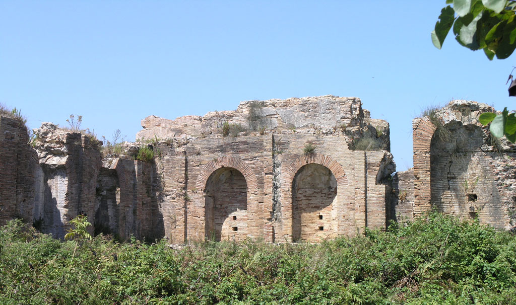 The Roman nymphaeum near the West gate of Nicopolis in Epirus. Photography taken by Marsyas 08:41, 22 September 2005 (UTC)